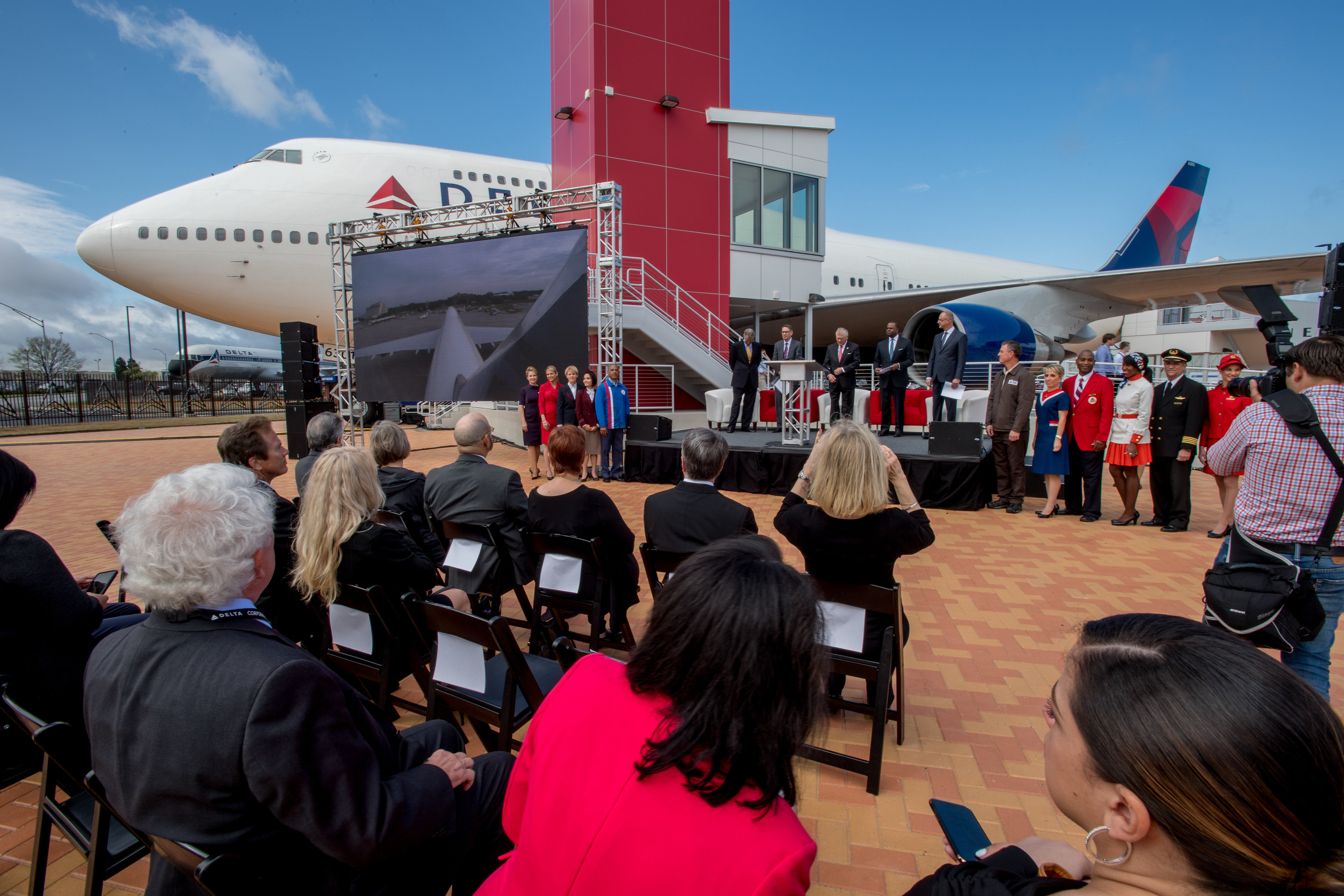 Delta people celebrate opening of '747' exhibit